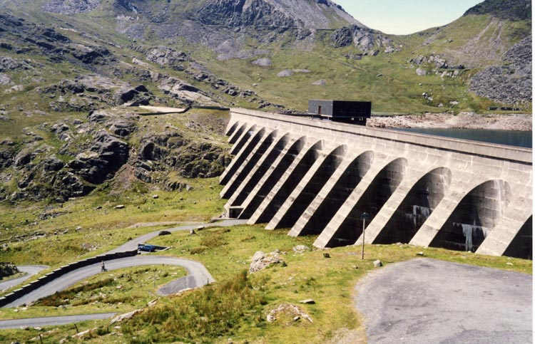 The upper reservoir (Llyn Stwlan) and dam of the Ffestiniog Pumped Storage Scheme in north Wales. The four water turbines at the power station can generate 360 MW of electricity within 60 seconds of the need arising. Taken by Adrian Pingstone in 1988 and released to the public domain.